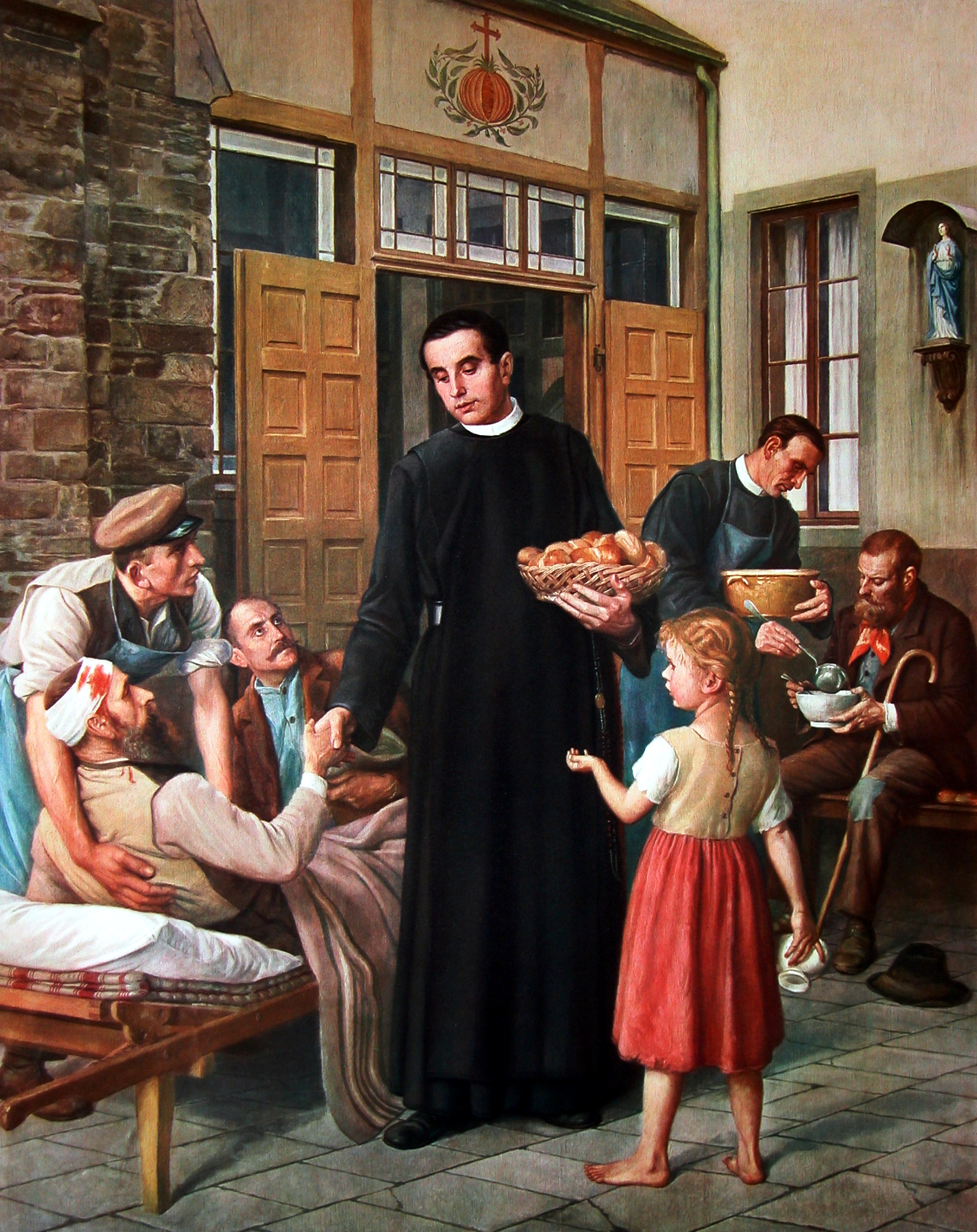 Blessed Peter Friedhofen